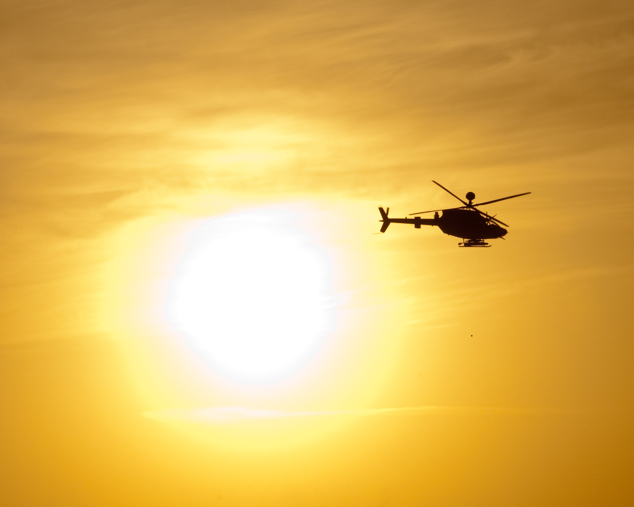 An OH-58D Kiowa Warrior helicopter with Task Force Saber, Combat Aviation Brigade, 1st Infantry Division, flies past the setting sun outside Al Asad Air Base, Iraq, May 21, 2010. The helicopter was participating in partnered fire aerial-ground integration training between the 82nd Airborne Division and the 7th Iraqi Army Division. 1st Brigade Combat Team, 82nd Airborne Division Public Affairs Photo by Sgt. Mike MacLeod Date: 05.21.2010 Location: Al Asad Air Base, IQ High Resolution version